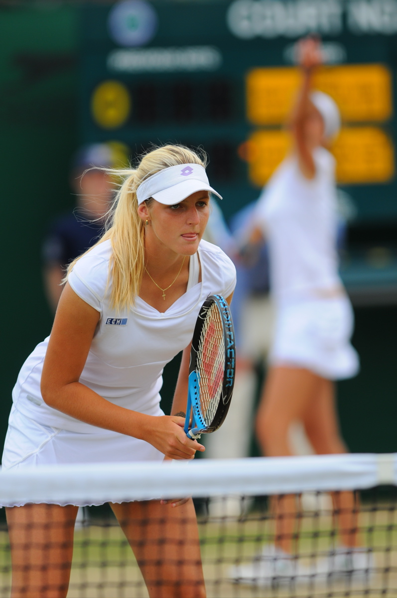 Kristyna Pliskova at the net while sister Karolina serves in background during their 2nd round doubles match at Wimbledon 2010